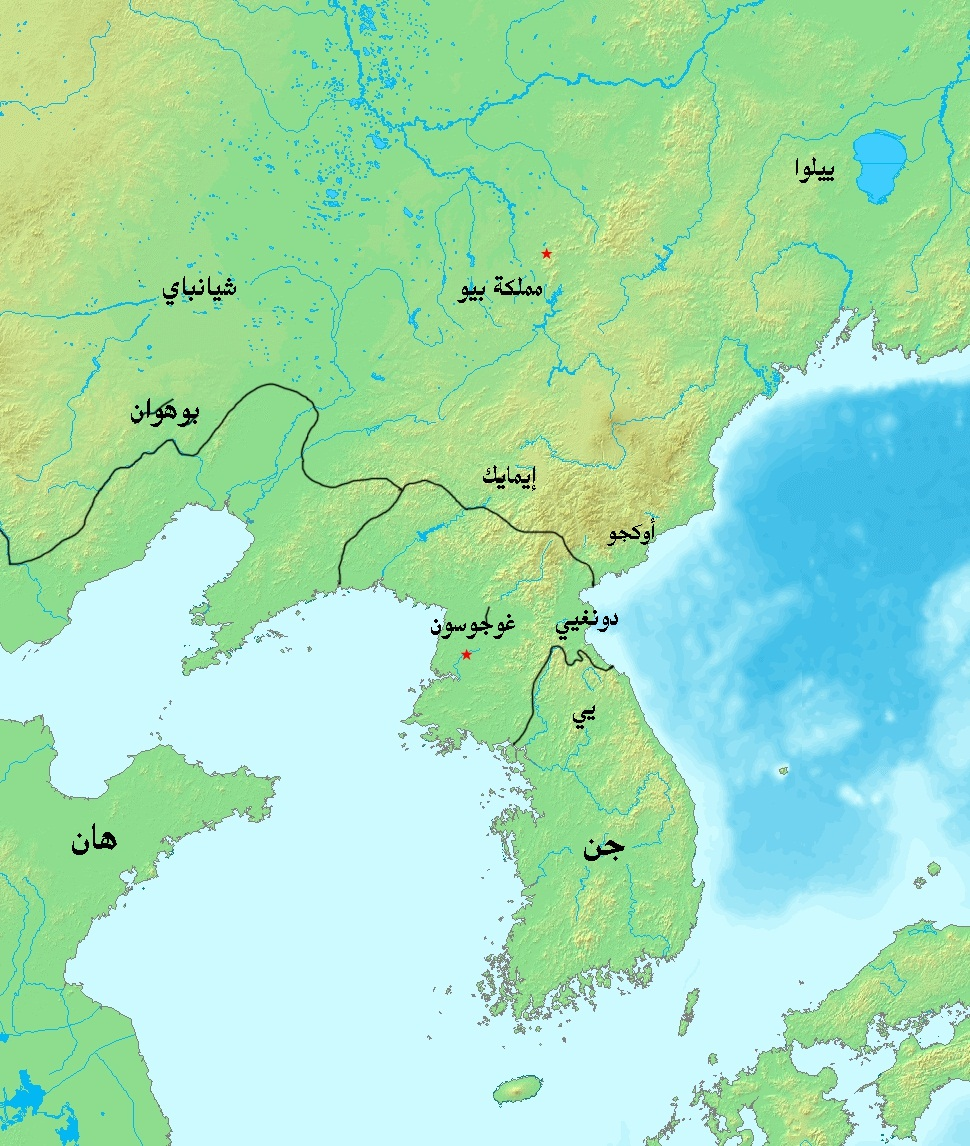 The original image contains English names, I changed it to Arabic to use it in Ar-Wikipedia.